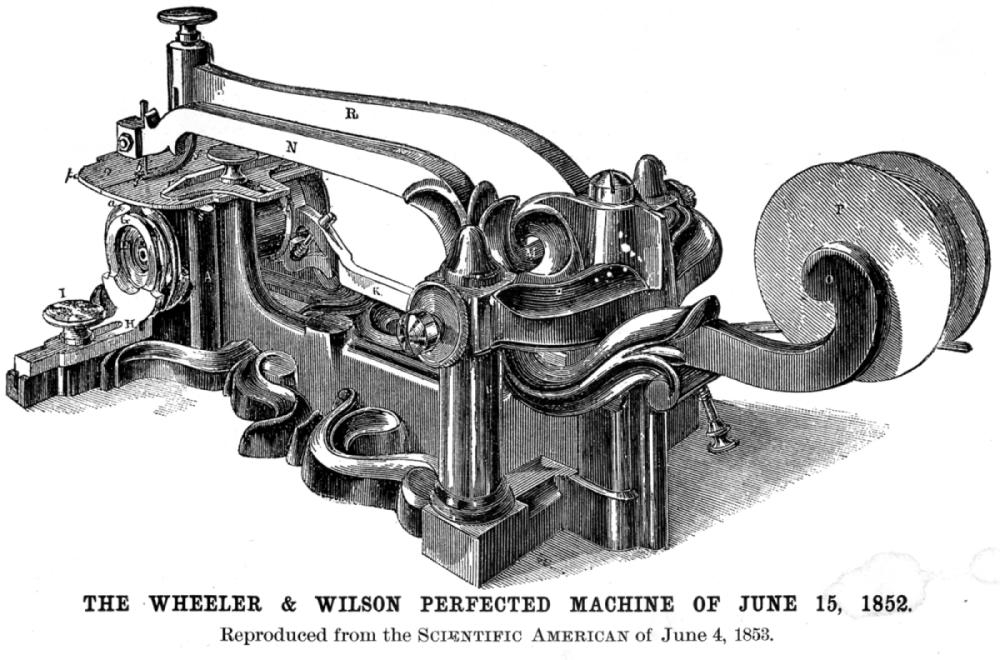 The Wheeler & Wilson perfected machine of June 15, 1852. Reproduced from the Scientific American of June 4, 1853.